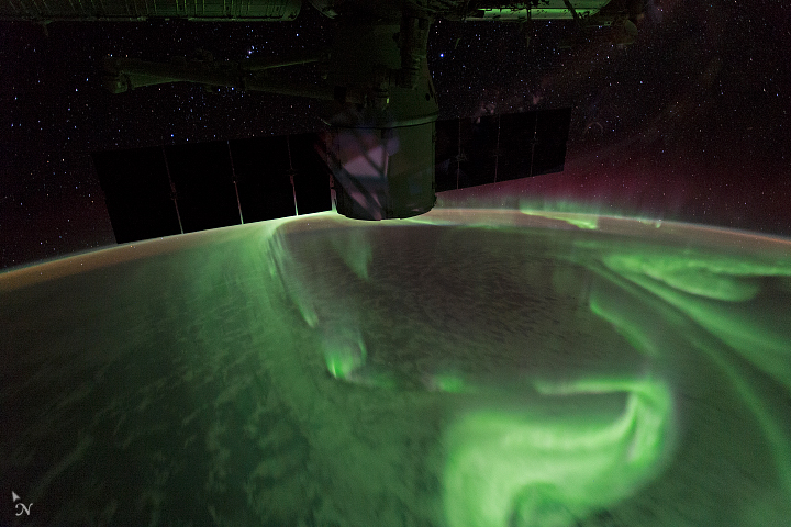 An astronaut took this photograph of the Aurora Australis in August 2017. At the time, the International Space Station was moving over the southern Indian Ocean towards the Great Australian Bight and Melbourne, Australia. Click here to see a video of the flight over the aurora. Auroras are created in the upper atmosphere when the solar wind (a stream of charged particles emitted by the Sun) interacts with the Earth’s protective magnetic field. Charged particles within the magnetosphere are accelerated down field lines toward the ionosphere, where they collide with different gases (particularly oxygen and nitrogen) and emit light as a reaction. Auroras often appear as neon green, purple, yellow, or red, depending on the gas molecules being excited. Green, for example, indicates collisions with oxygen. Astronaut photograph ISS052-E-63378 was acquired on August 19, 2017